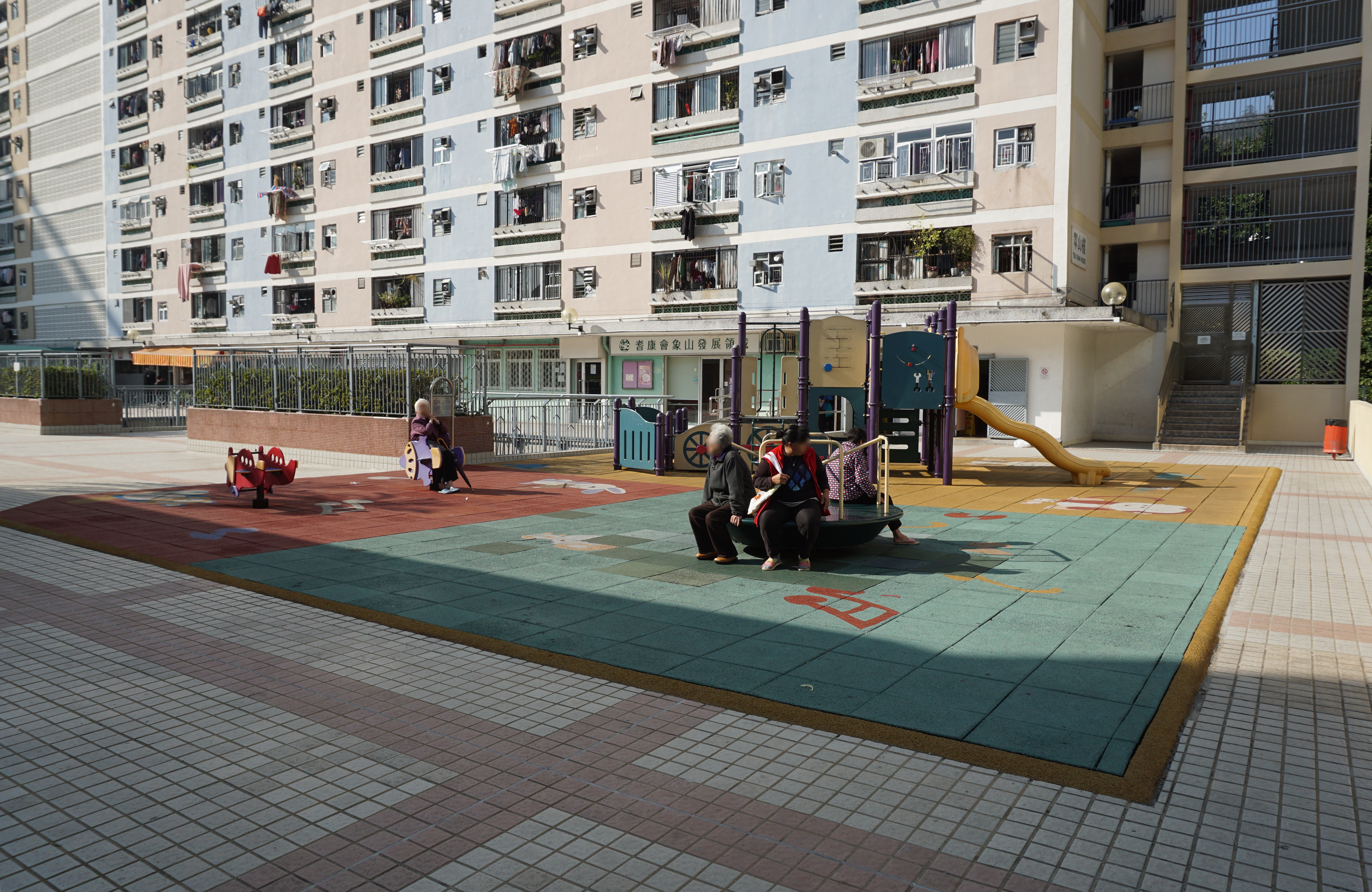 Cheung Shan Estate in Tsuen Wan, Hong Kong.